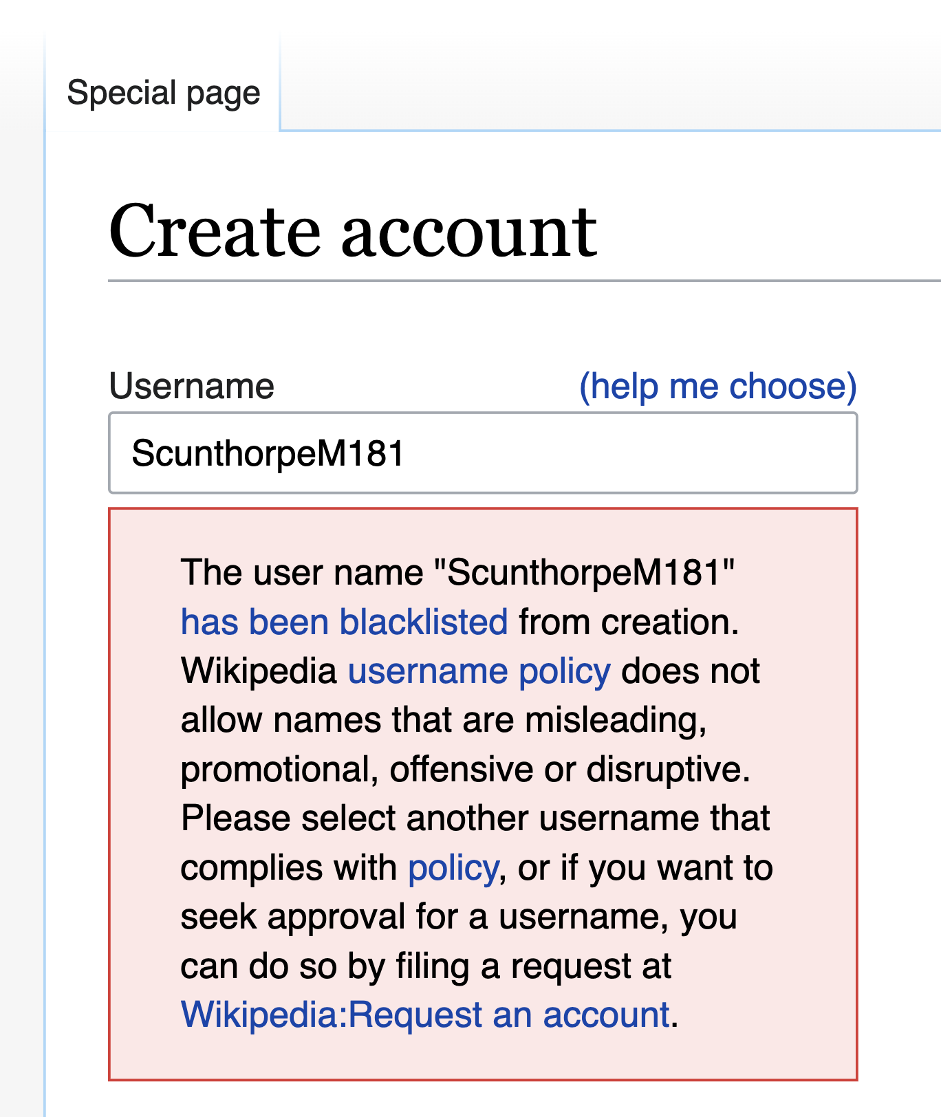 Wikipedia screenshot showing Scunthorpe problem